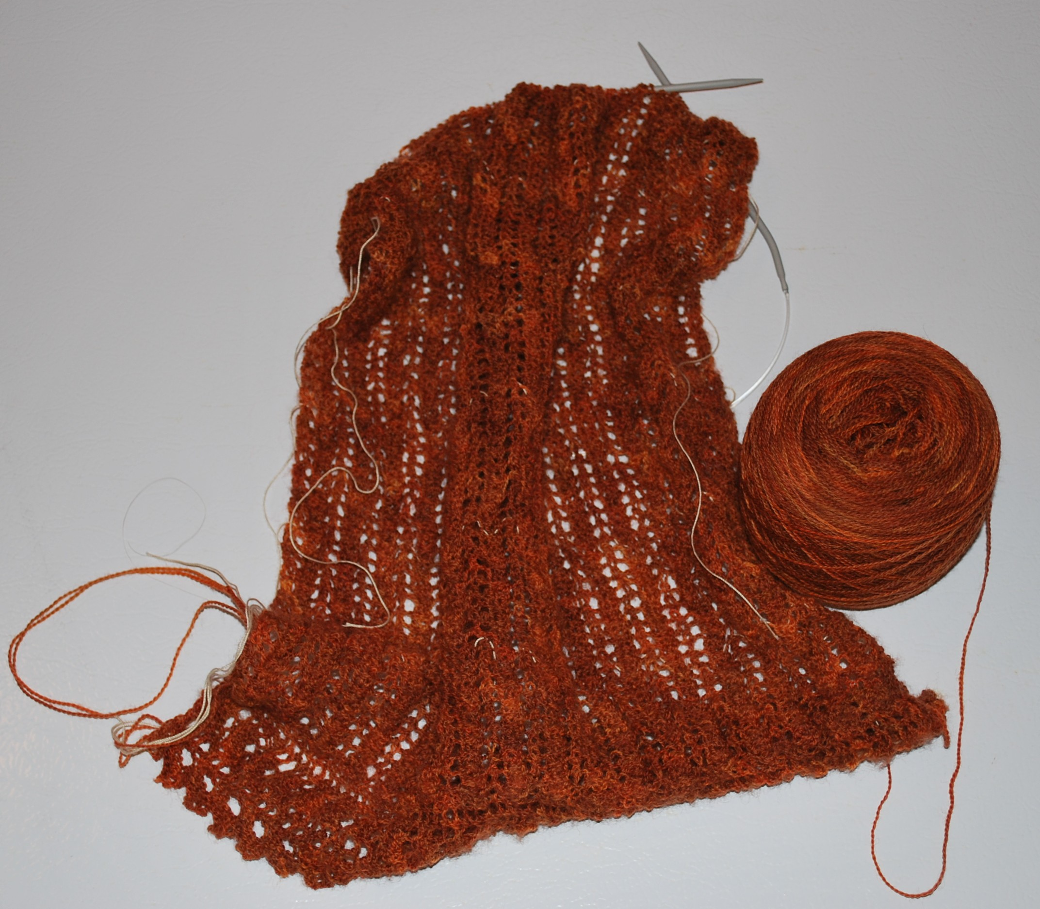 Wool shawl on the needles. Yarn is Tanis Fiber Arts lace weight Superwash 100% wool in Amber colourway. Needle is 3.25 mm "Aero" circular needle. Pattern is "Rhea Stole" by Valley Yarns. Cropped version of "Lace knitting.JPG".